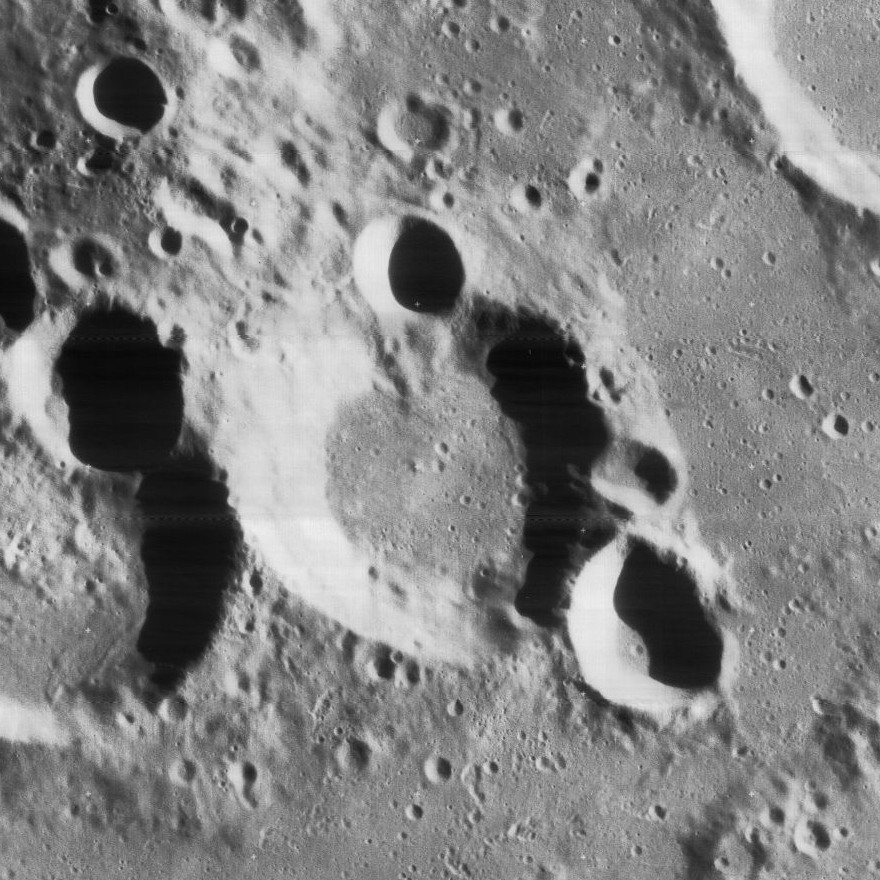 Slightly oblique view of Weigel, on the moon.